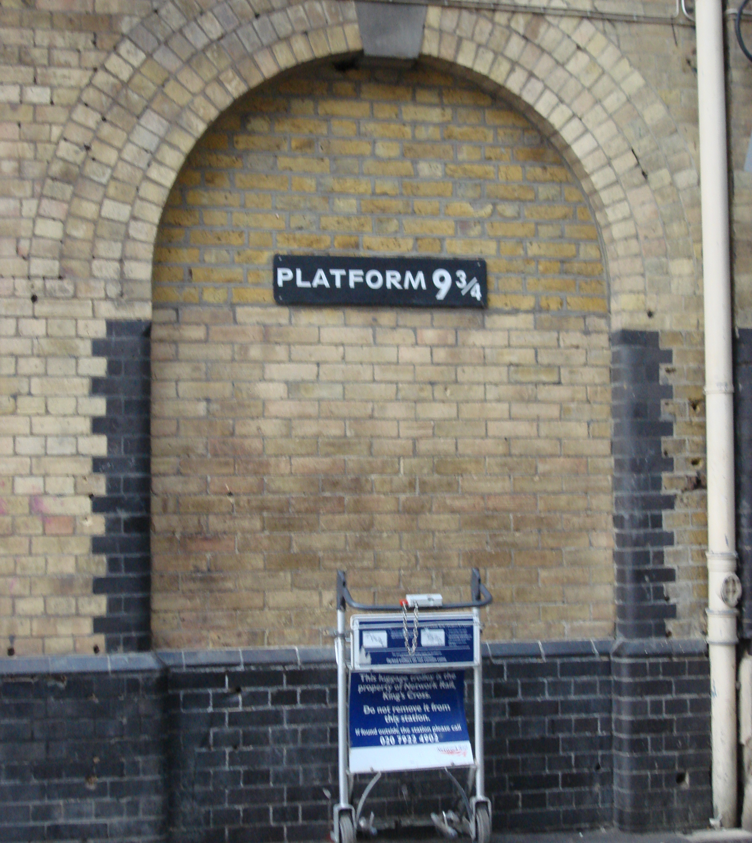 Platform 9-3/4 Entrance tribute to Harry Potter at King's Cross railway station, London, UK